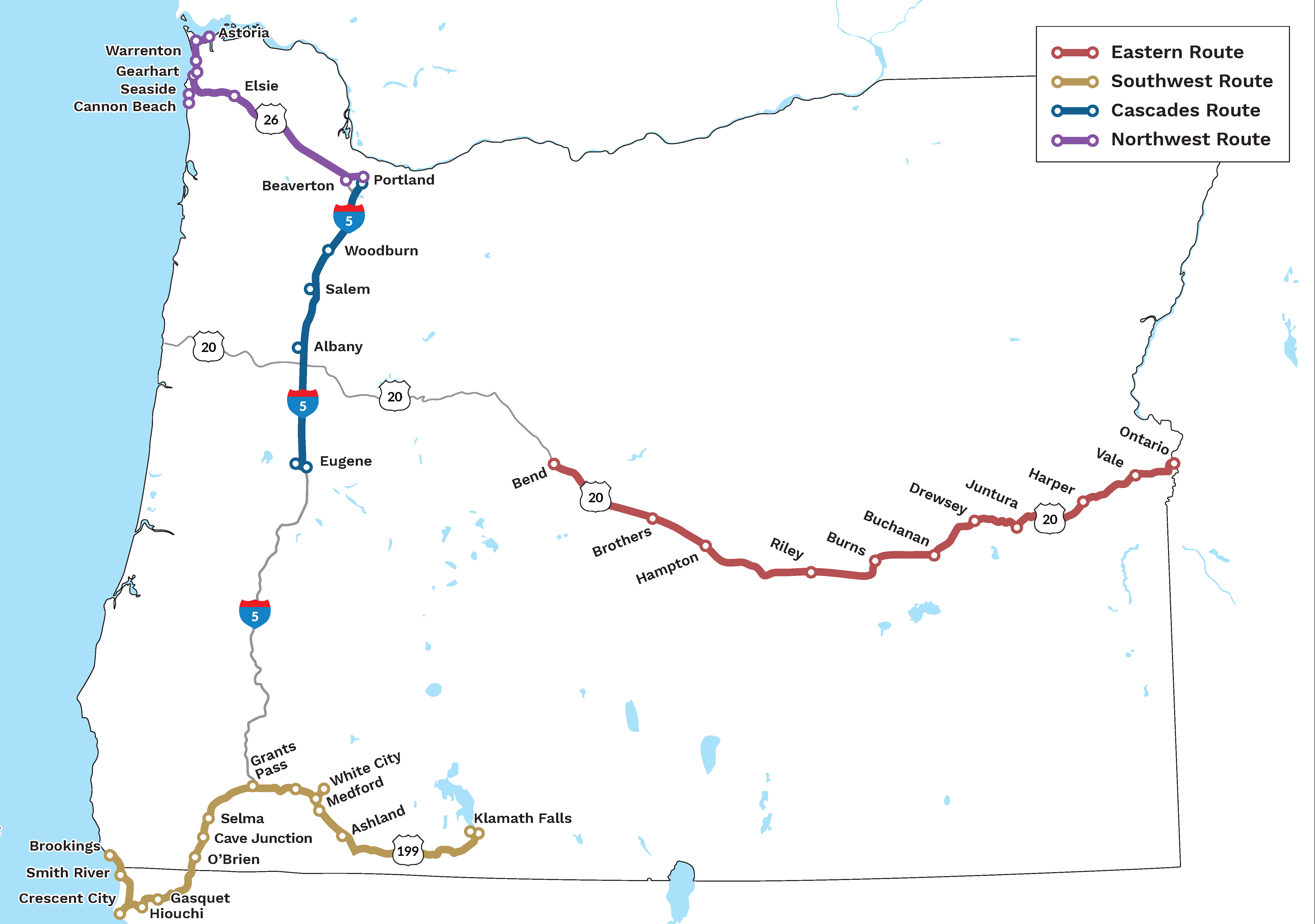 Map of POINT bus service, 2019